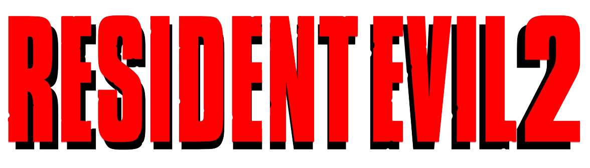 The european logo for the videogame Resident Evil 2.